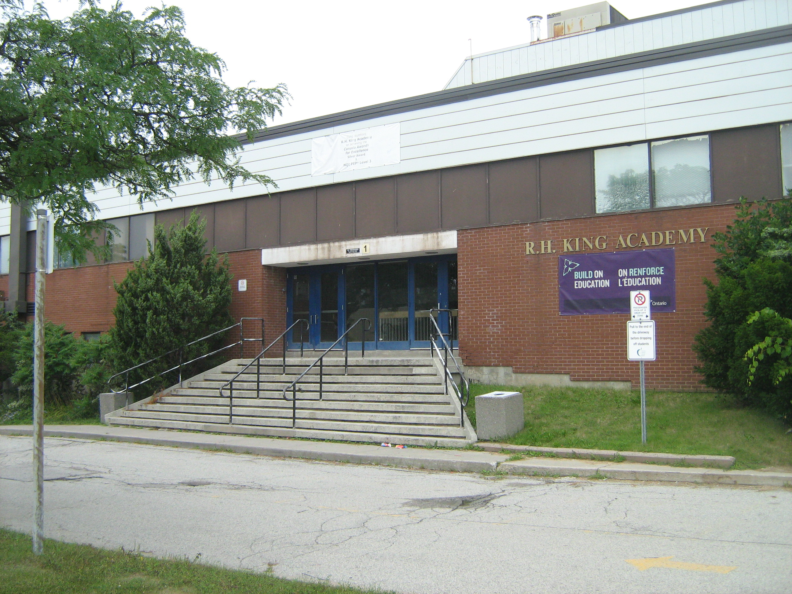 New entrance of R.H. King Academy, erected 1976.